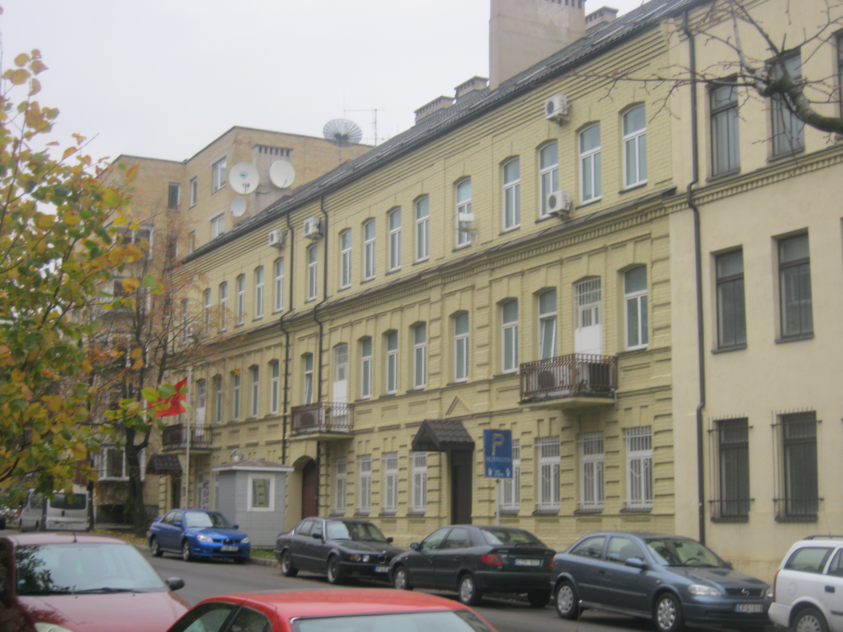 Chinese Embassy in Vilnius, Lithuania